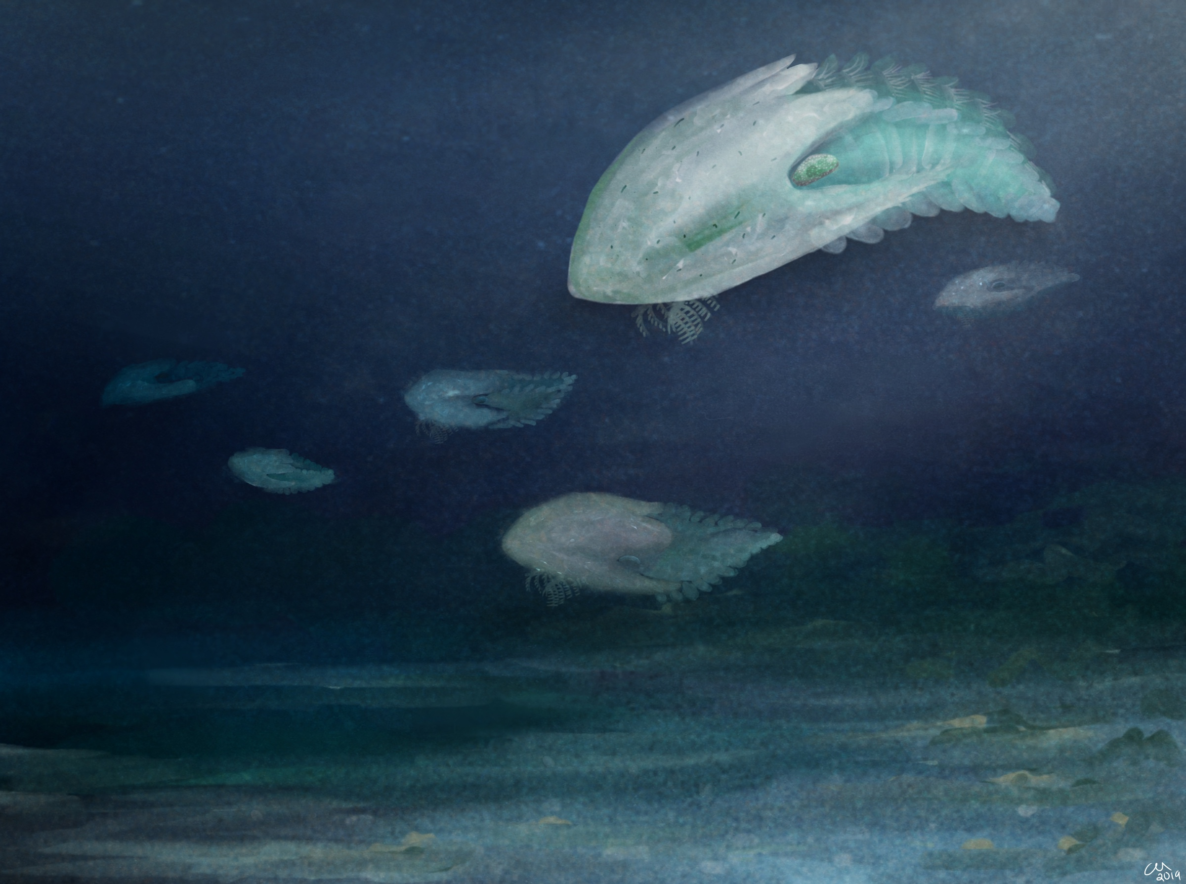 A group of Cambroraster in Marble Canyon, swimming over a brine seep.